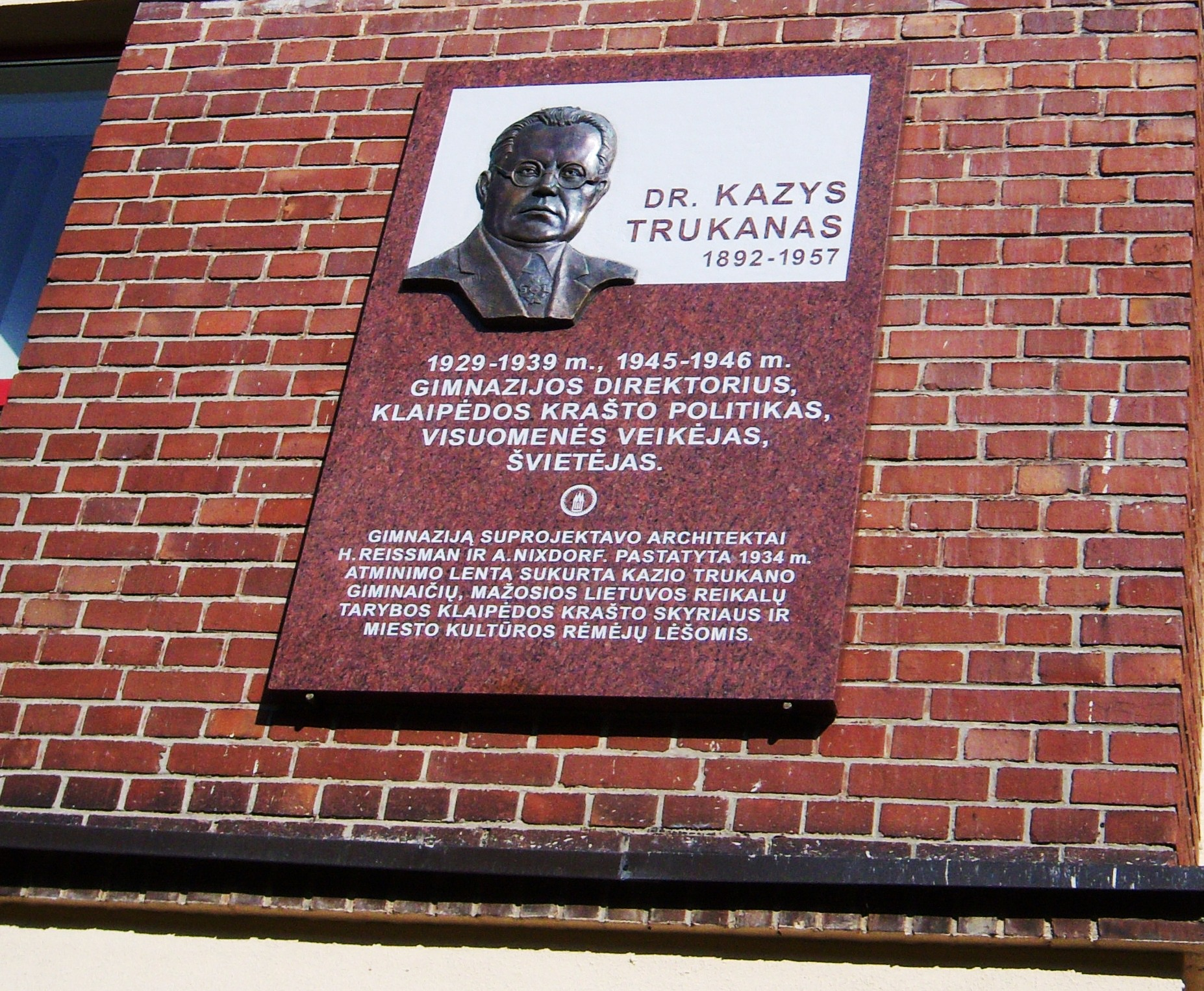 Memorial plaque on facade of Gymnasium of Vytautas the Great, Klaipėda, Lithuania